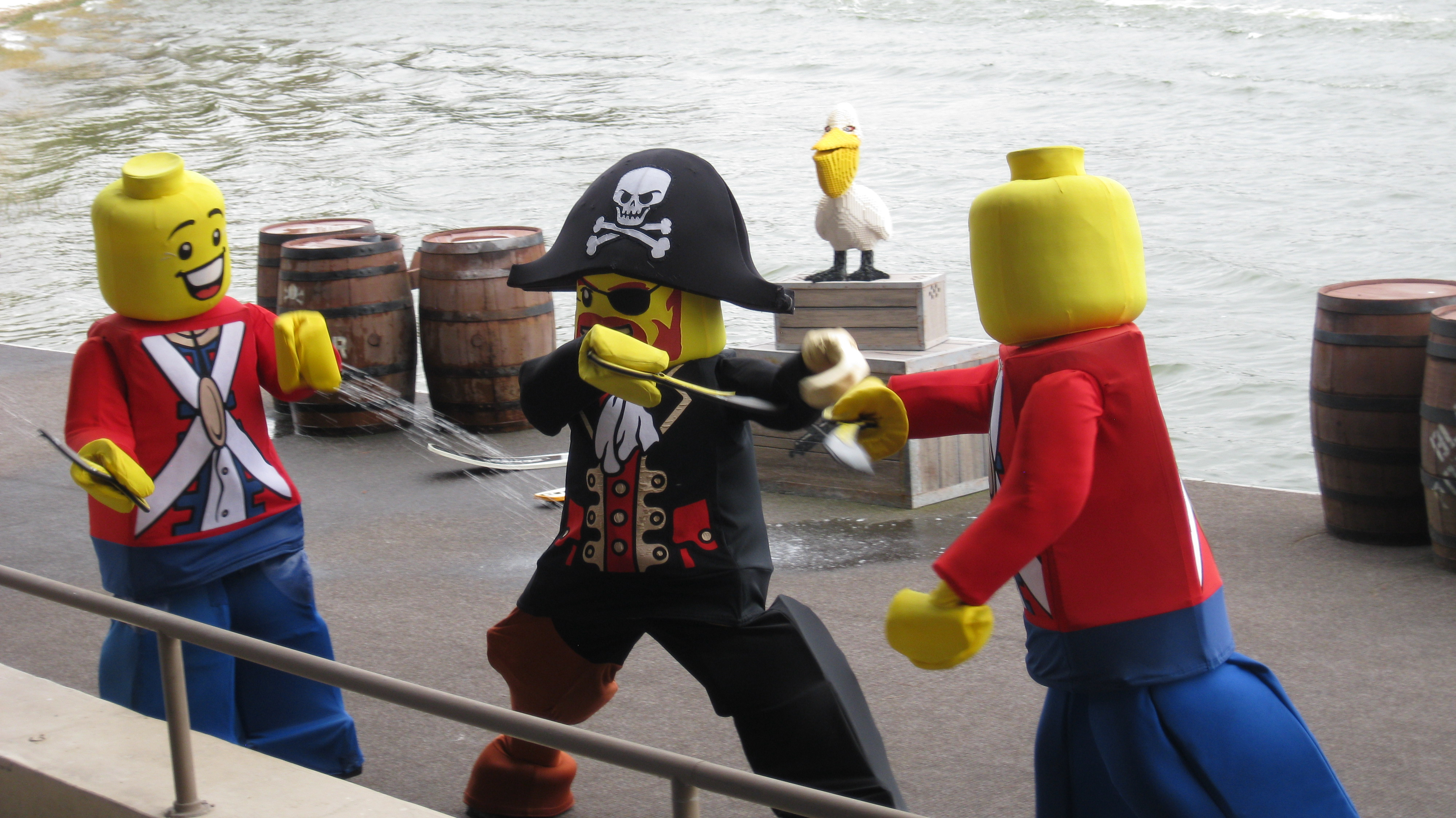 LegoLand Sky Show